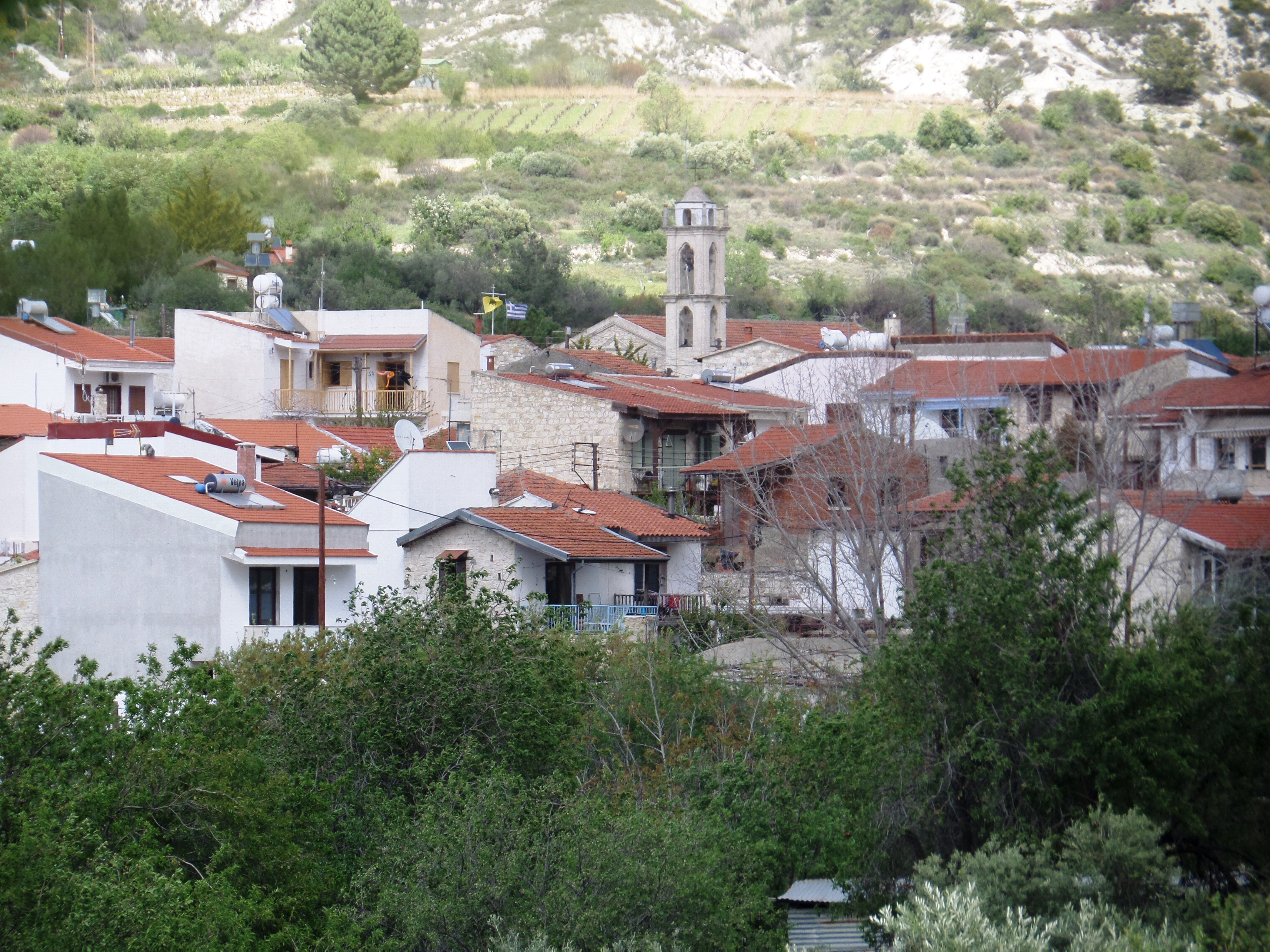 View of Laneia.